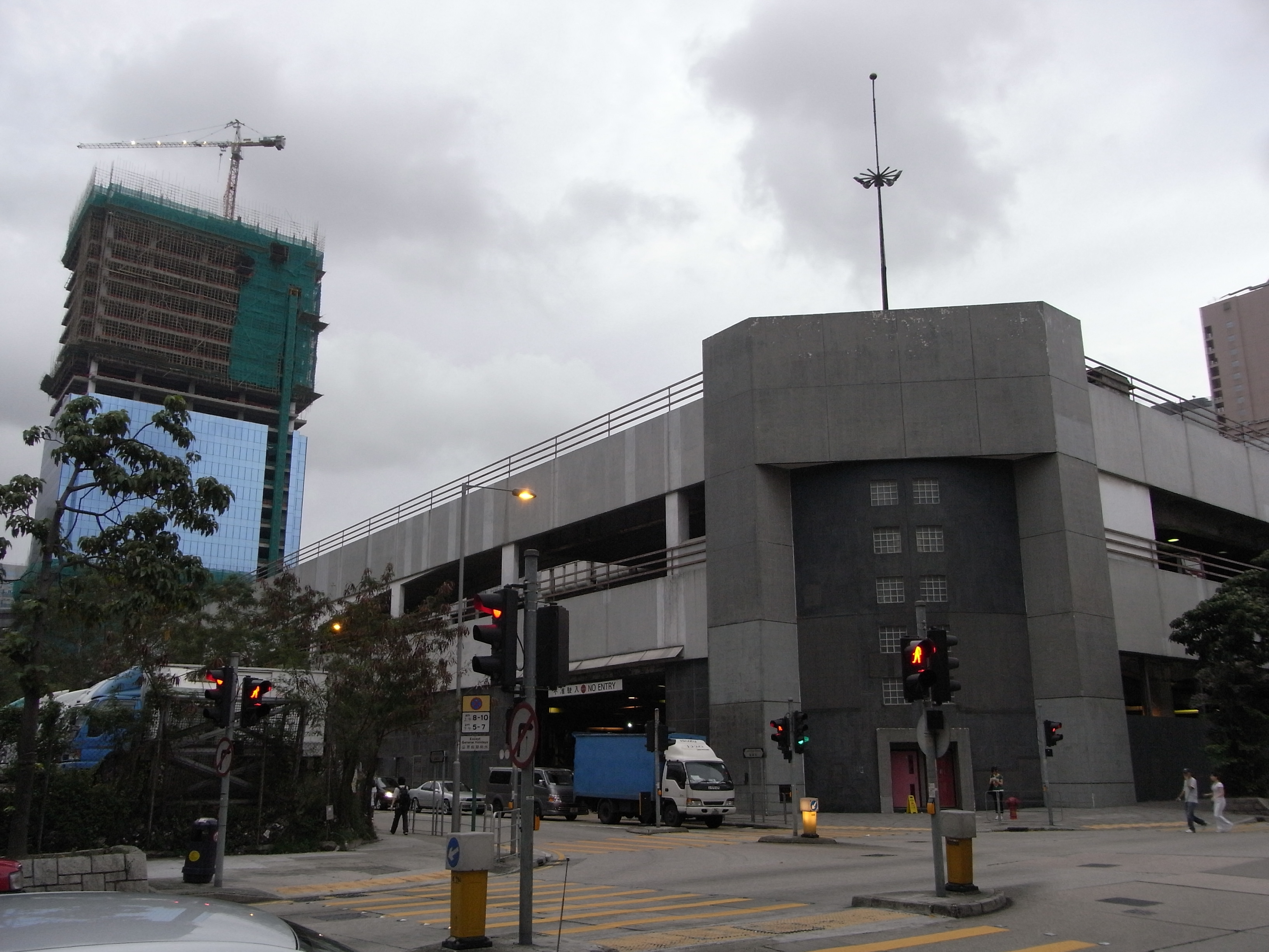 九龍灣 宏光道& 臨興街交界